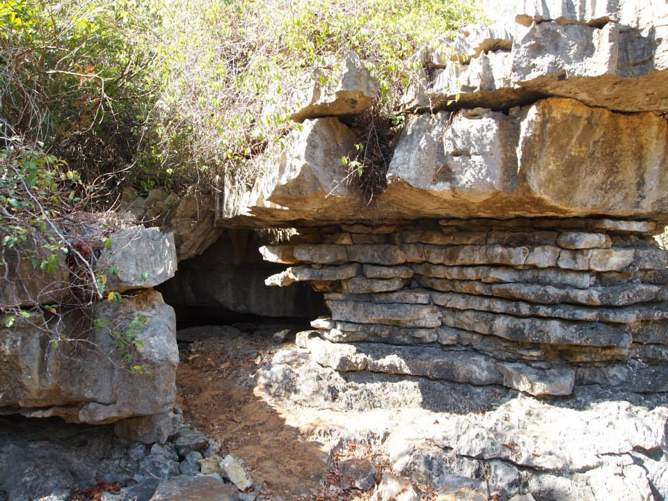 A natural shelter in Ankarana Reserve used for shelter by Antankarana people